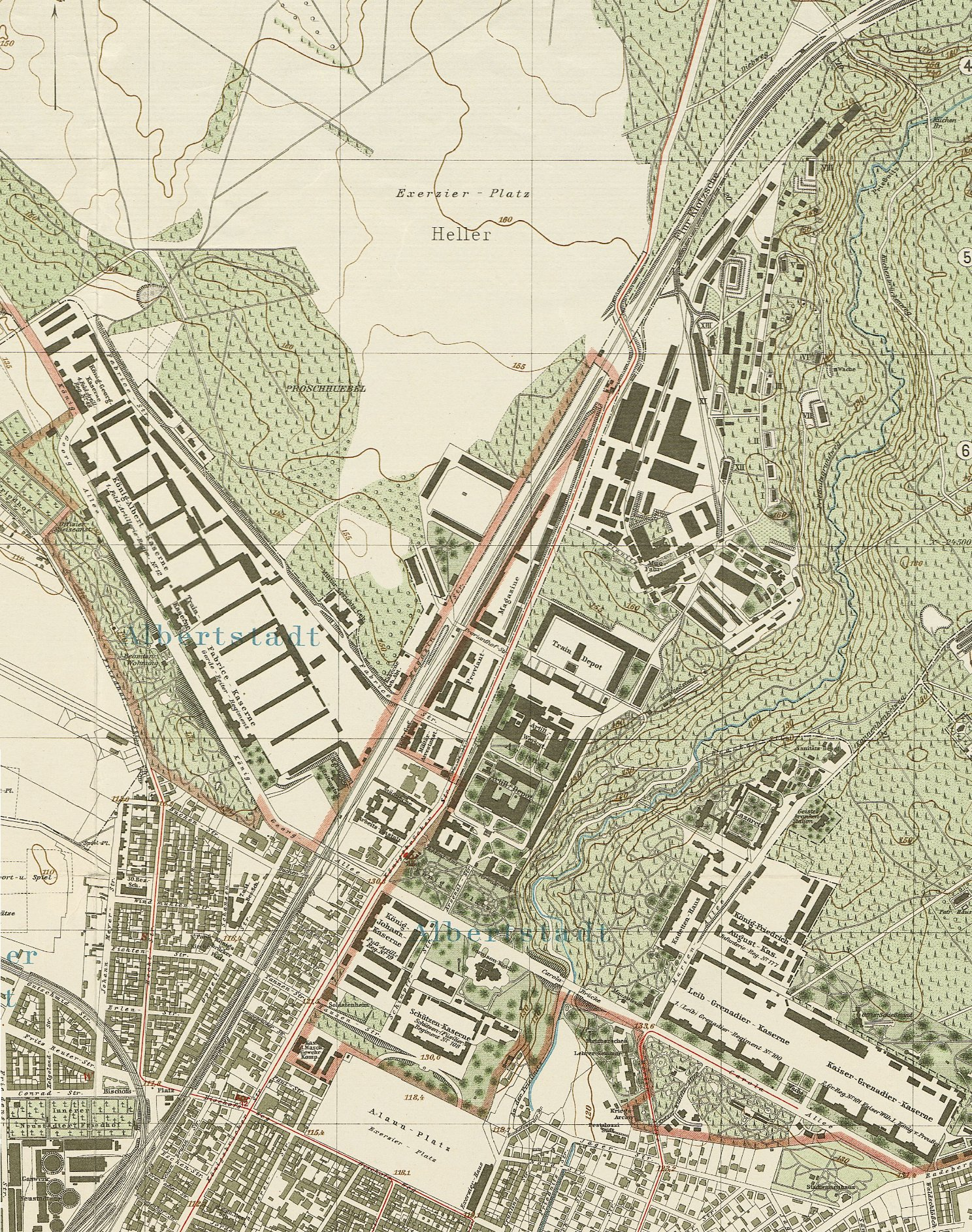 Albertstadt North of Dresden in 1917, section of a outreach map of Dresden